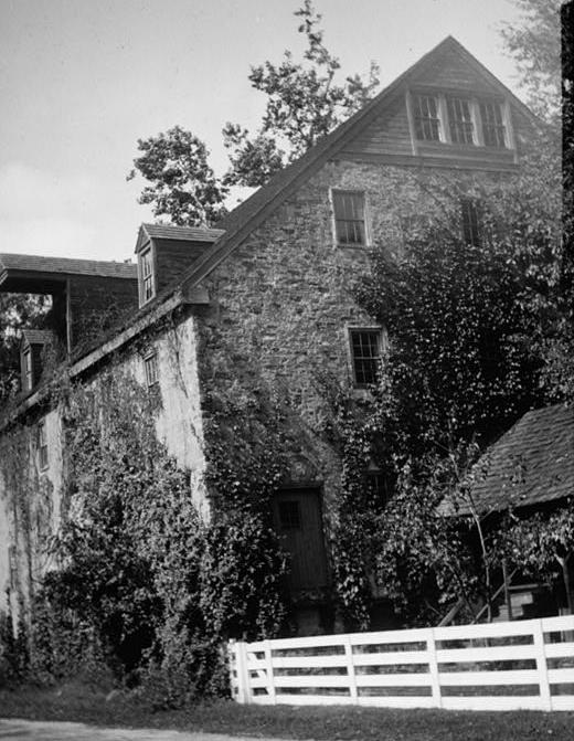 Historic American Buildings Survey, Joseph P. Sims, Photographer, November 6, 1936 THE FRONT FROM MATHERS LANE. HABS PA,46-AMB.V,6-3 Work product from HABS in the public domain, as per